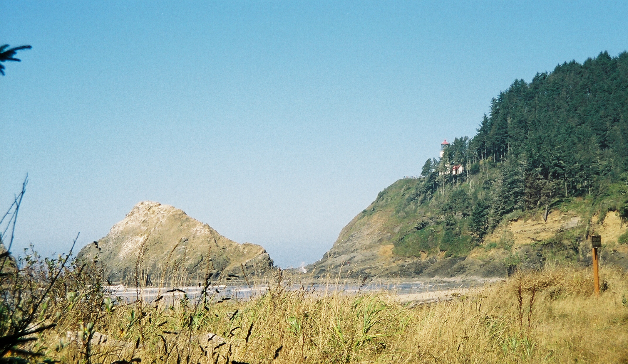 View of the Heceta Head Light and nearby beach off Highway 101 (Oregon). Parrot Rock to the left of the lighthouse